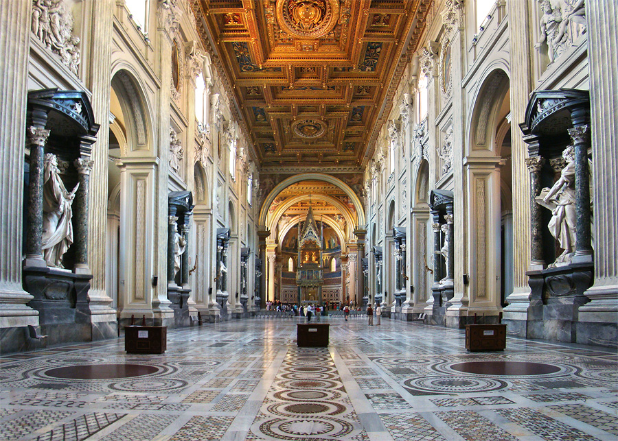 Basilica of St. John Lateran, Vatican, located in Rome, Lazio, Italy. With its length of 400 feet, this Basilica ranks 15th among the largest churches in the world.